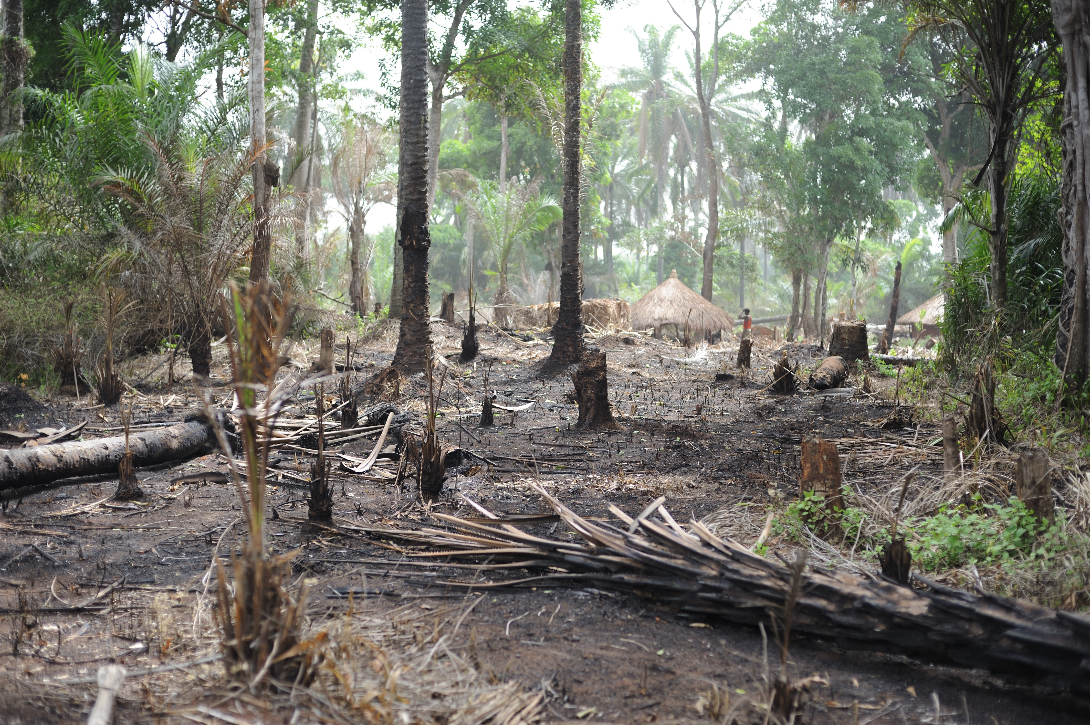 Clearing the forest for makeshift huts The displaced are Zande, the same tribe as the population of Doruma. They have been lent land in and around the village and have started to clear the forest to set up their huts and plant vegetable plots. Their huts are well dispersed and so the risk of contagious diseases is not as high as one might have feared. Water however is a problem. There are few springs in the area; water is drawn from shallow wells most of which are open so the water quality is poor. UNICEF and Solidarités have set up water chlorination points to minimise the risk of water borne diseases, however this is at best a temporary solution and diarrhoea has already overtaken malaria as the most common complaint at the hospital. CESVI another non governmental organisation plans to come into to rehabilitate broken water pumps and build new ones.